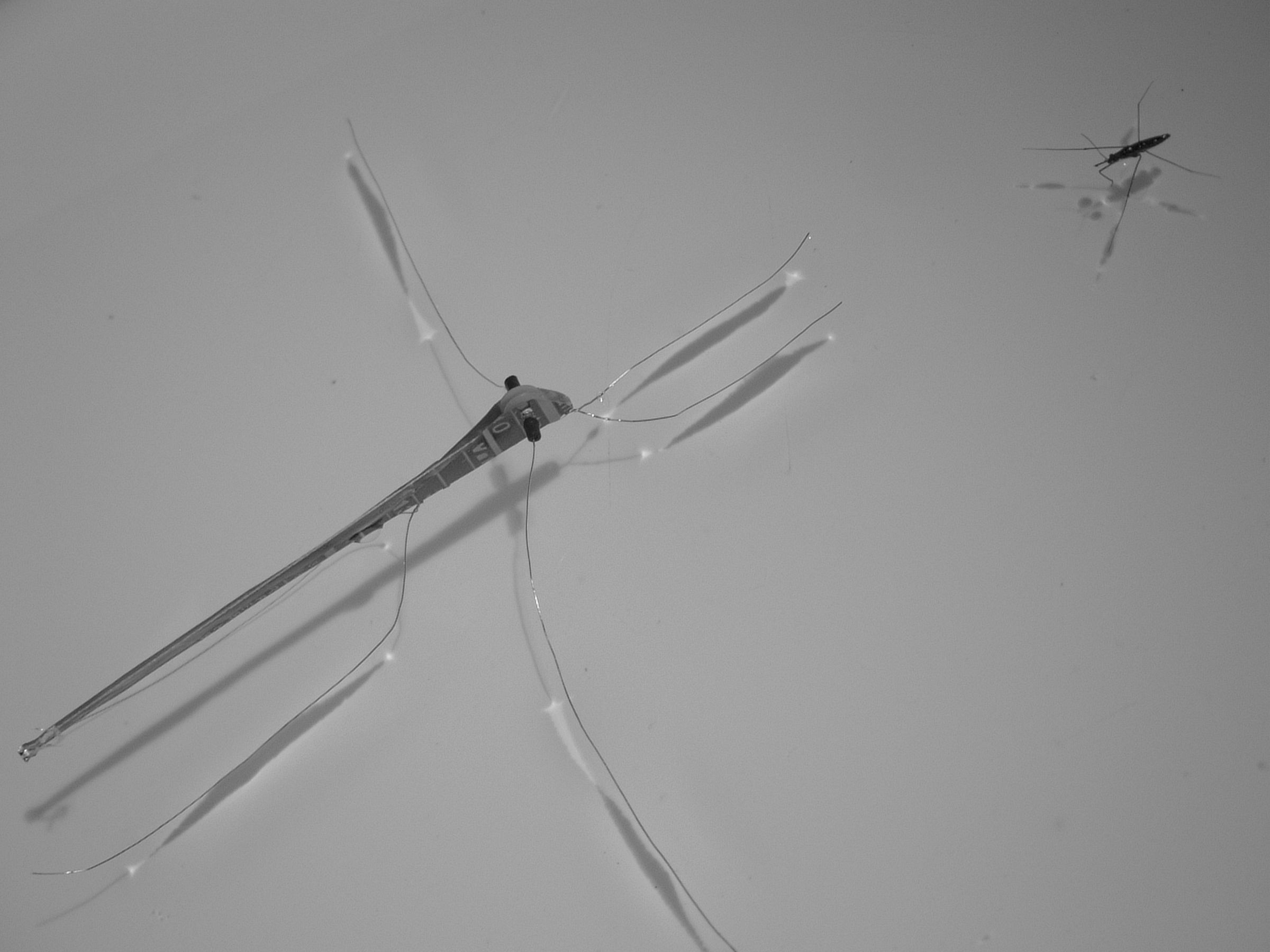 robostrider faces its biological predecessor